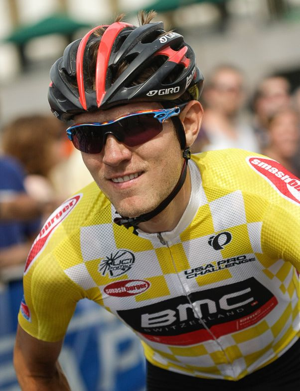 Tejay Van Garderen with the yellow jersey as leader of the USA Pro Cycling Challenge 2013